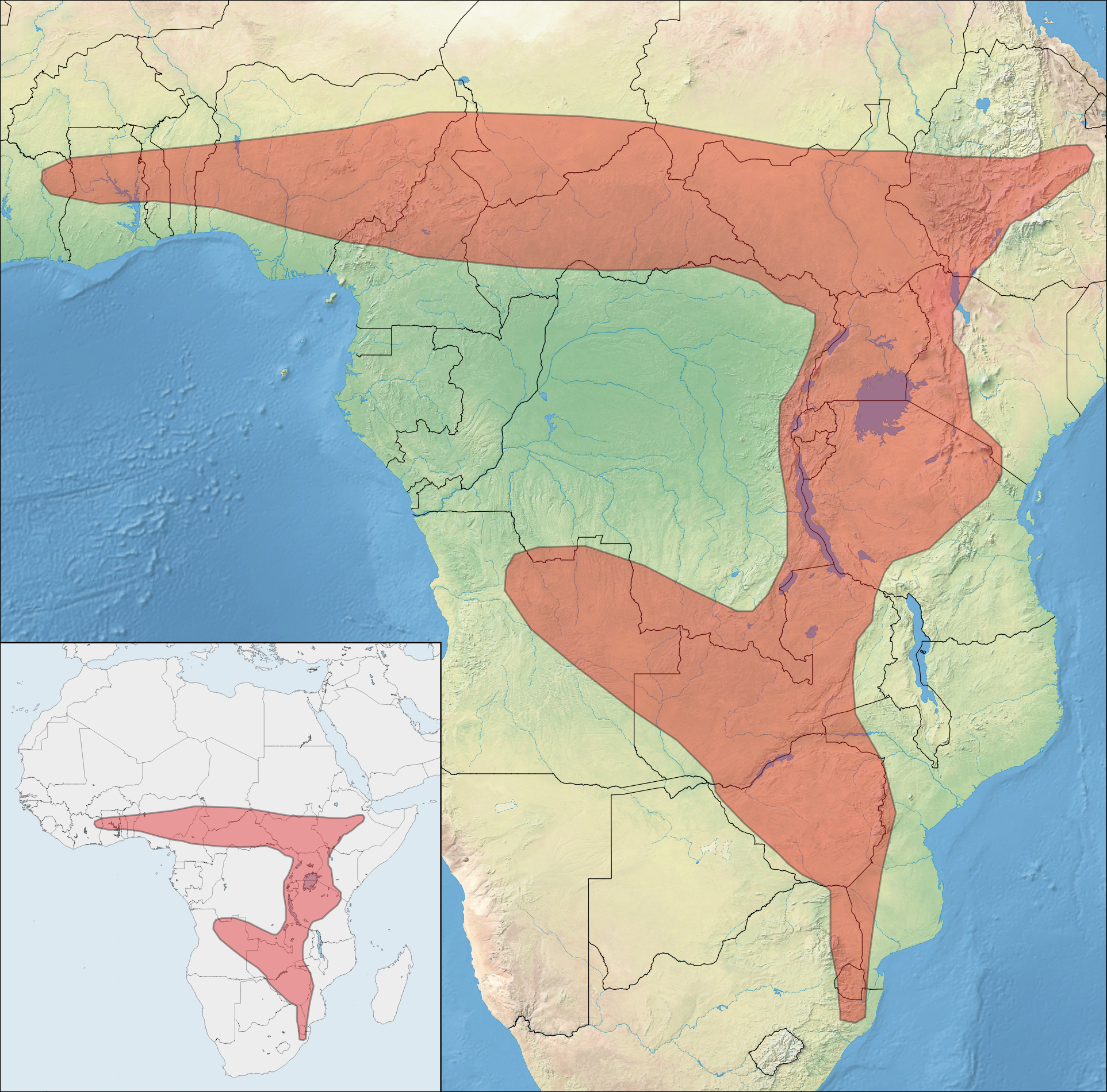 Geographic range of Chaerephon ansorgei